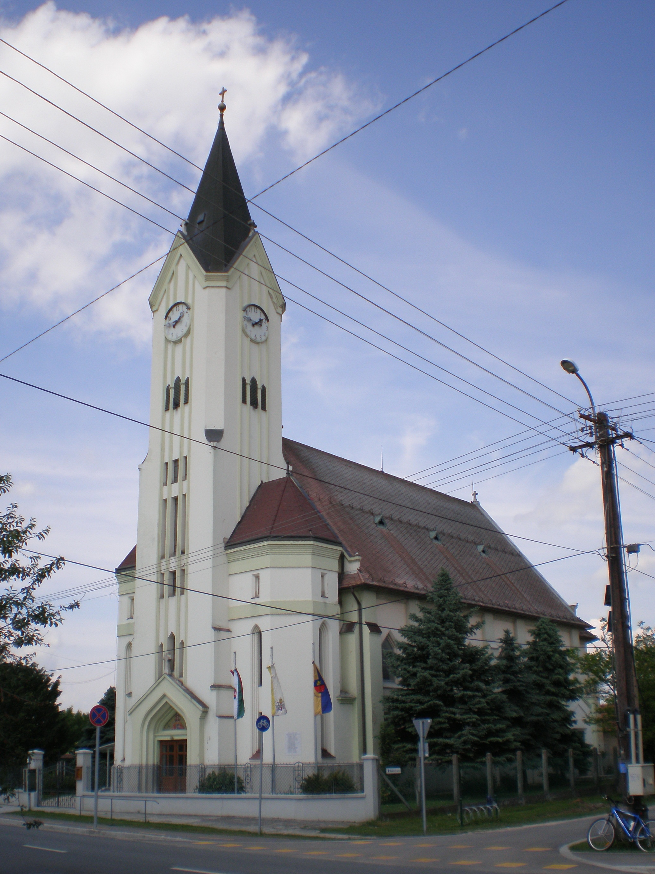 Catholic Church Darnózseli, Hungary